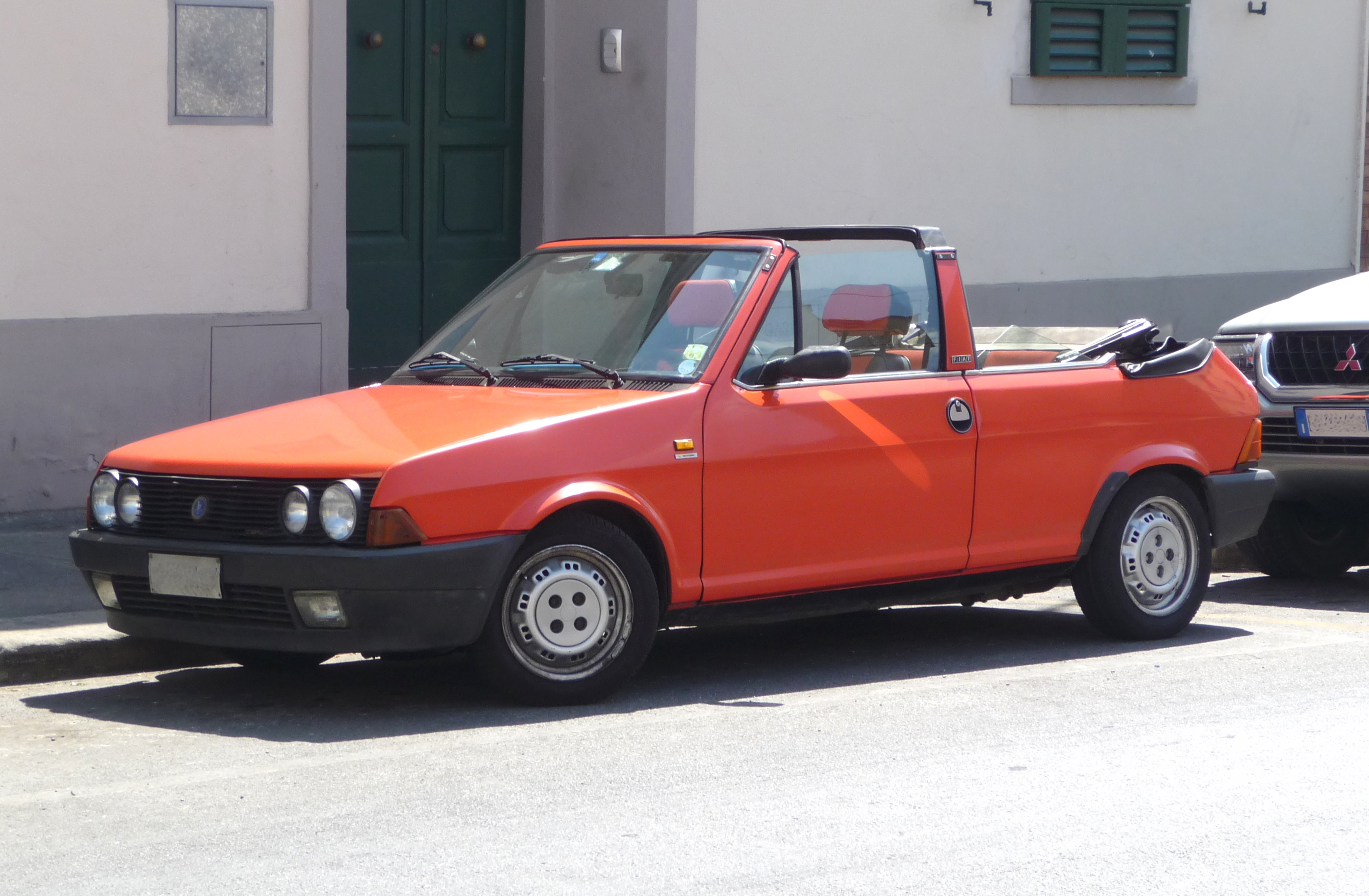 Fiat Ritmo Cabriolet (Bertone)